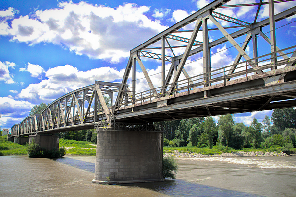 The Velika Morava Bridge (Most na Velikoj Moravi), Svilajnac, Serbia